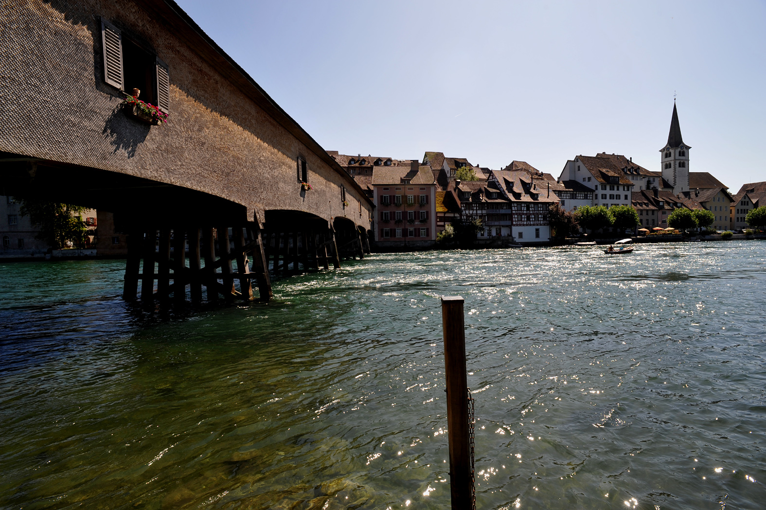 Bridge over the river Rhine Diessenhofen–Gailingen; Schaffhausen, Switzerland and Baden-Württemberg, Germany.